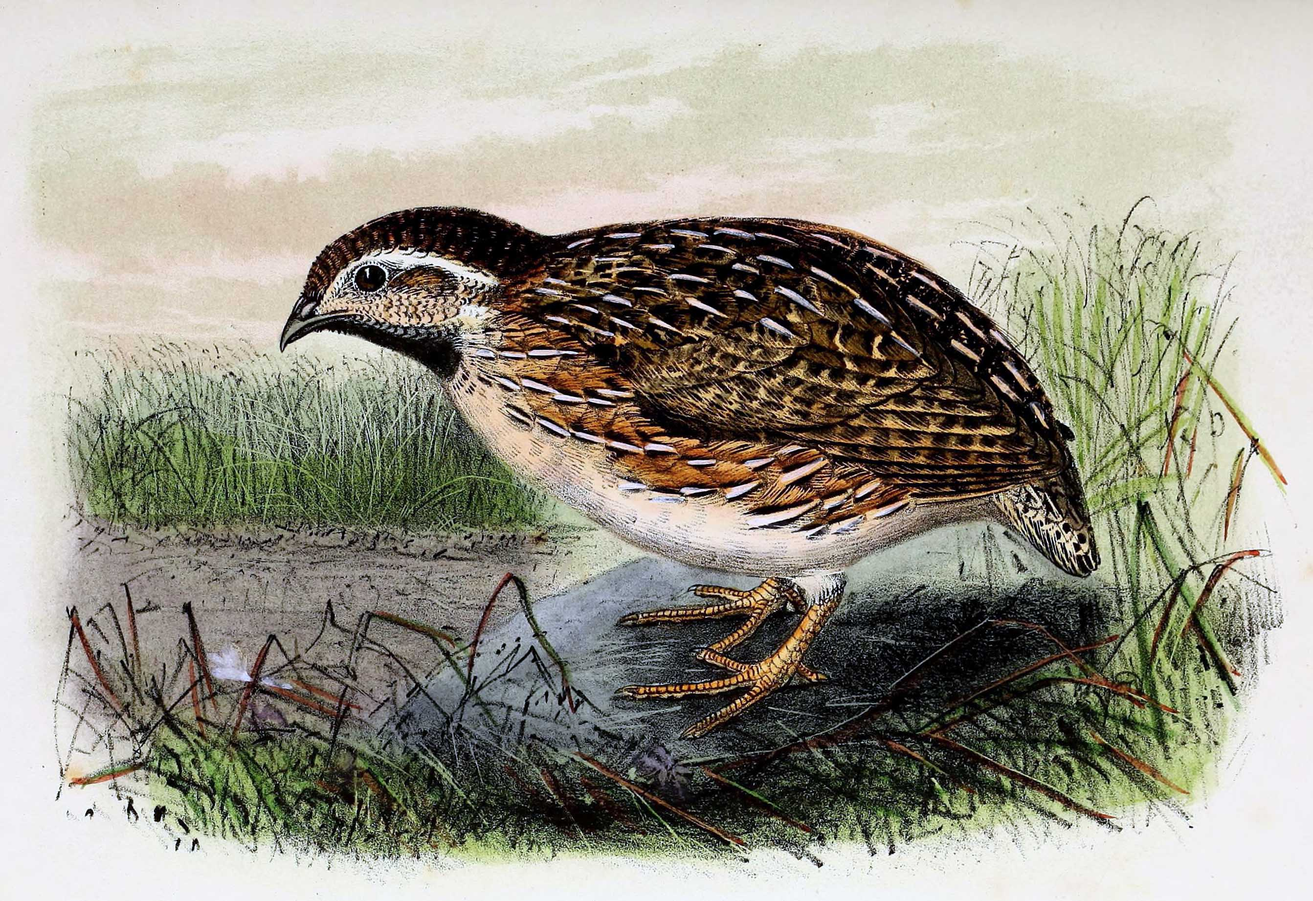 « Coturnix communis » = Coturnix coturnix (Common quail)